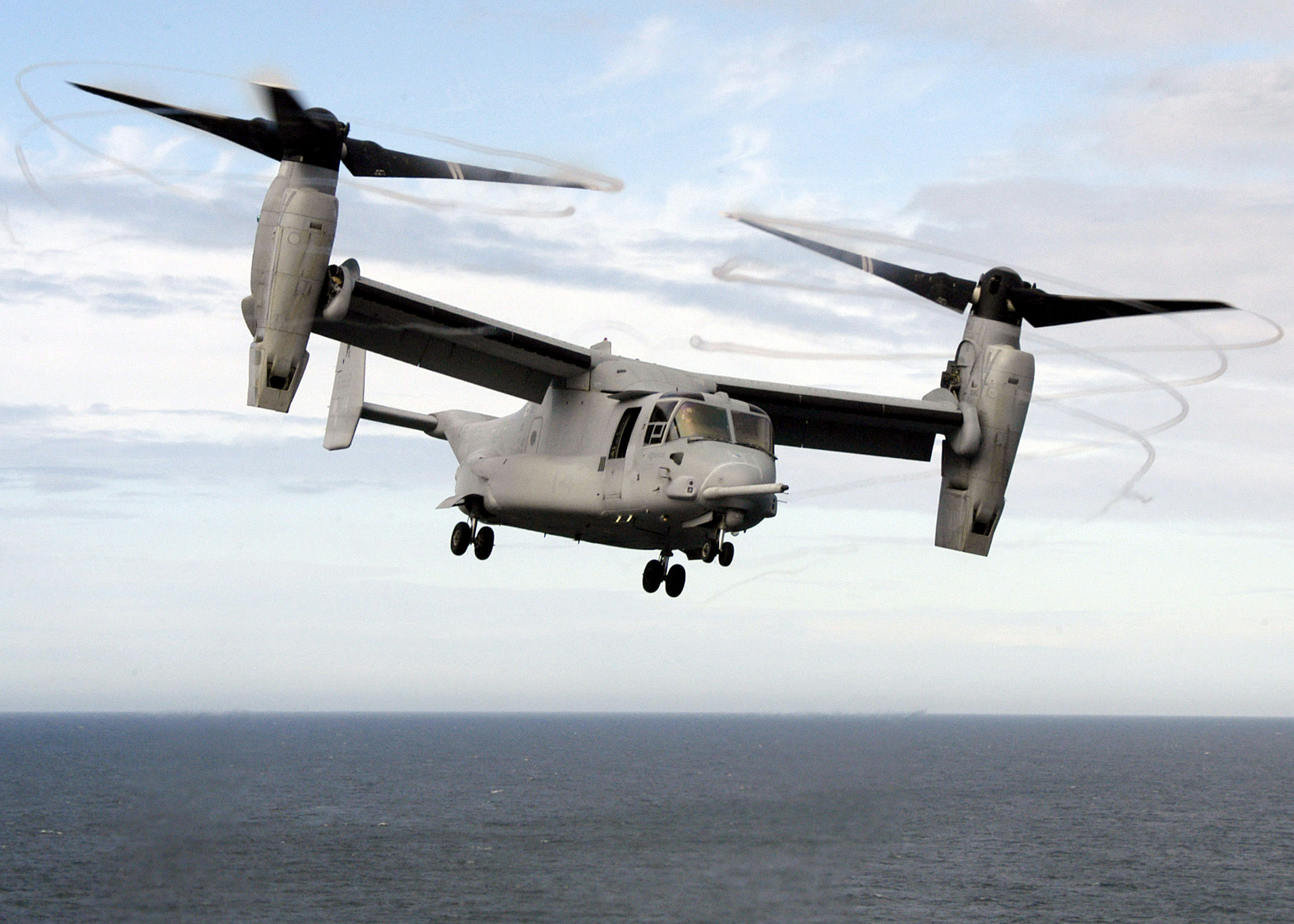 A US Marine Corps (USMC) MV-22B Osprey, Marine Tiltrotor Operational Test and Evaluation Squadron (VMX) 22, Marine Corps Air Station (MCAS) New River, North Carolina (NC), takes off from the flightdeck of an amphibious assault ship. The MV-22 is an advanced technology, vertical/short takeoff and landing multipurpose tactical aircraft, and is scheduled to replace the aging CH-46E Sea Knight and CH-53D Sea Stallion helicopters currently in service.